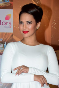 Rochelle Rao graces The Indian Television Academy Awards 2017